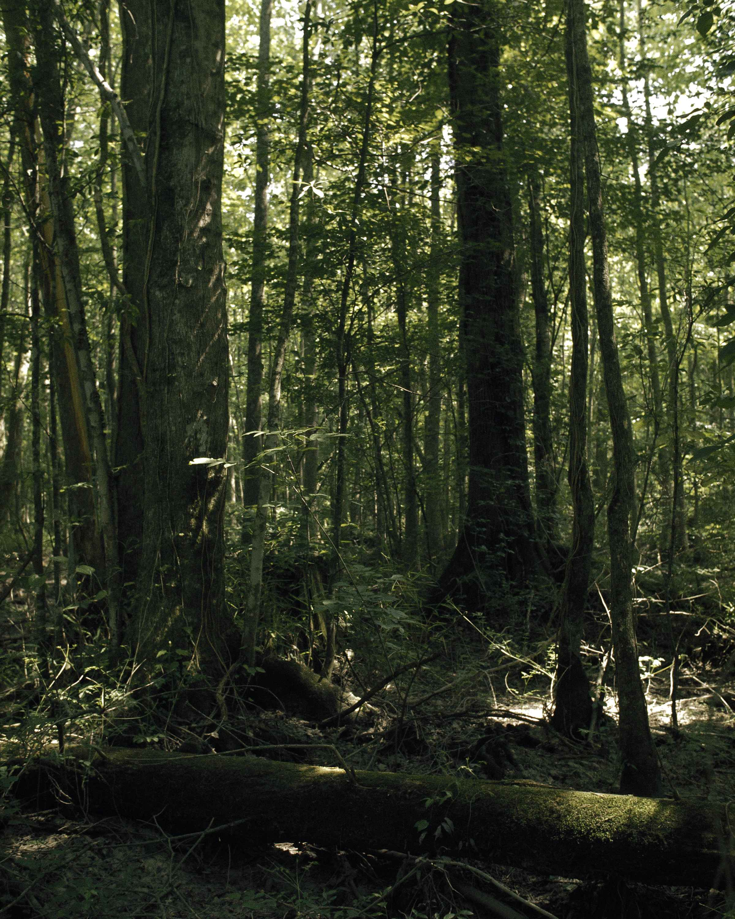 Image title: Great dismal swamp Image from Public domain images website